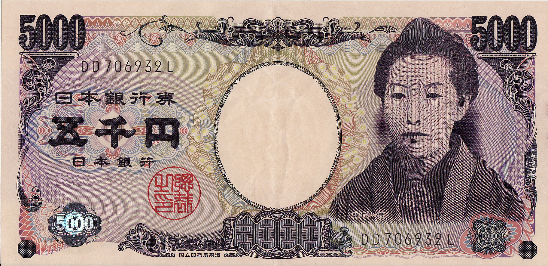 5000 yen banknote, 2004 (front)